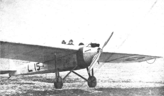 Daimler L.15